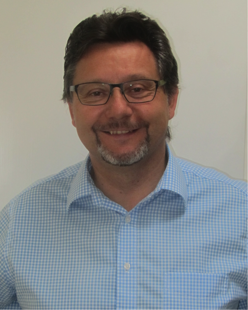 Detlef Fetchenhauer 2014